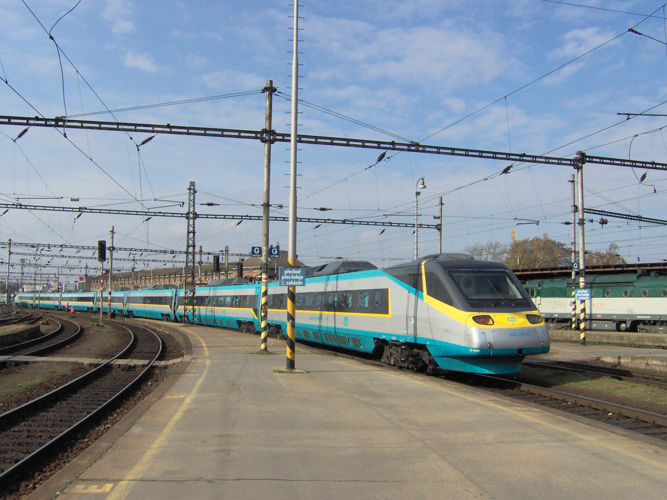 Electric multiple unit 680.007, Brno main station, Czech Republic